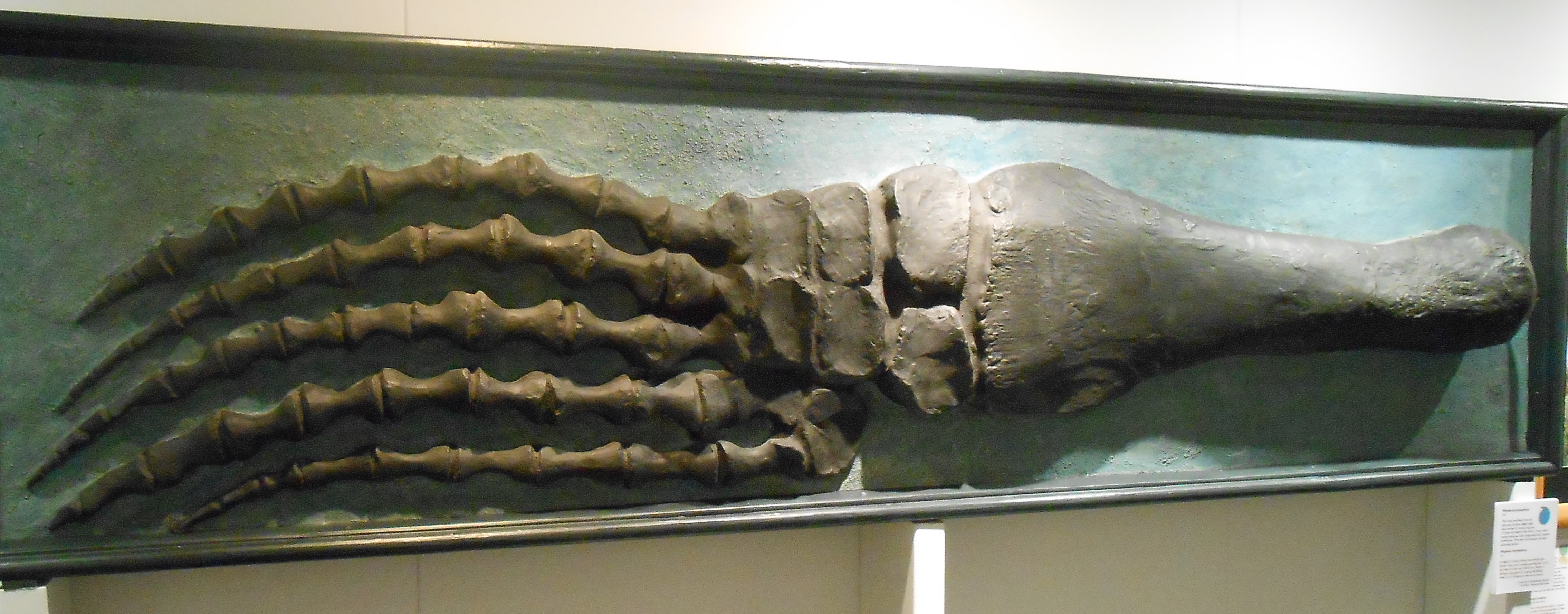 Pliosaurus brachydeirus flipper (cast), Wrexham Museum, Wales.